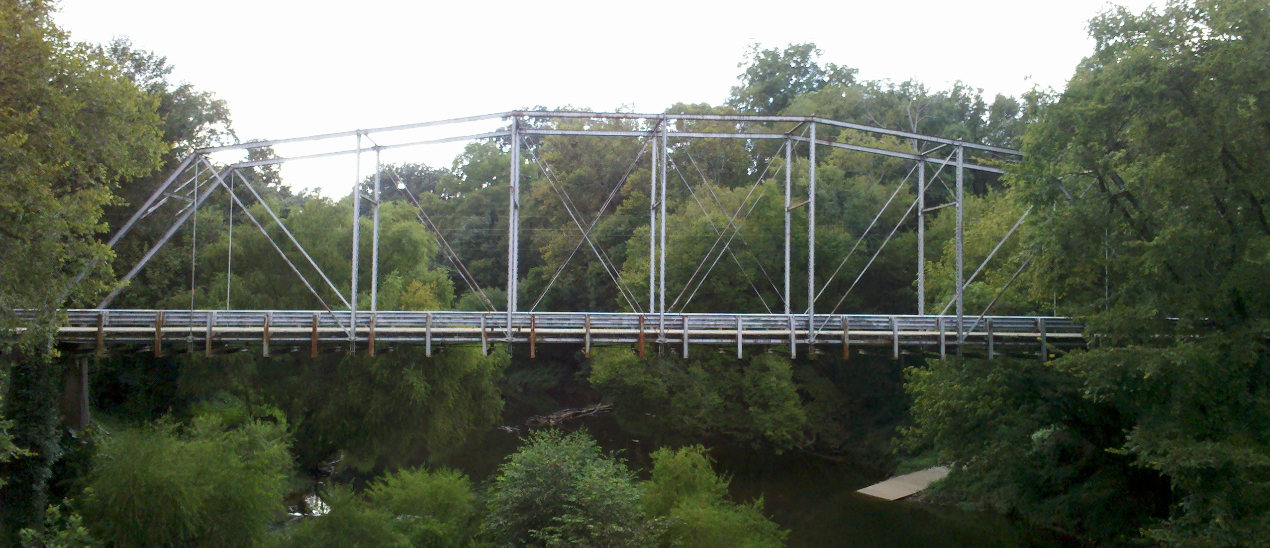 Deep River Camelback Bridge, Chatham and Lee Counties, NC, USA Aug 2012